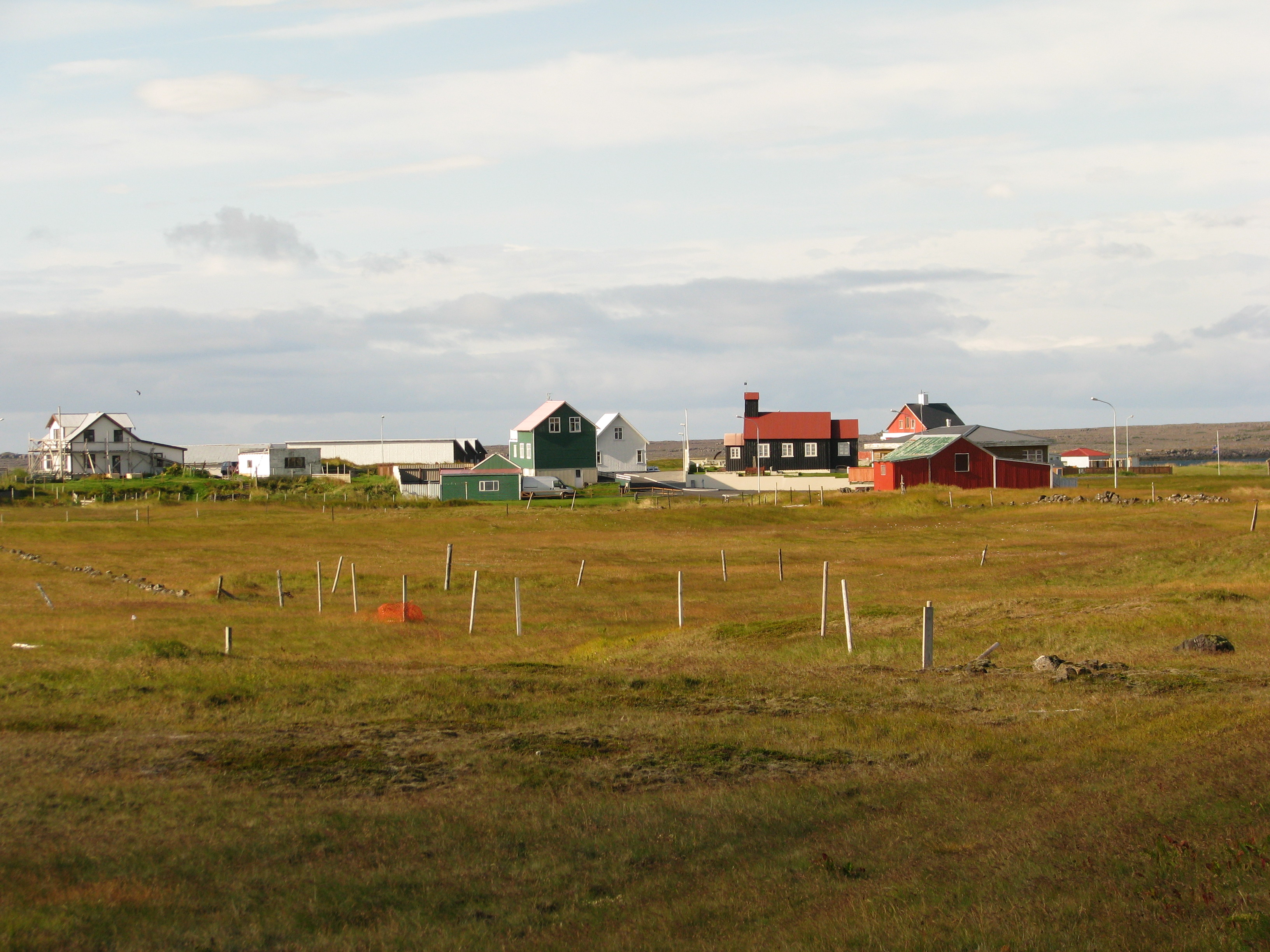 Hafnir, a town on Iceland.